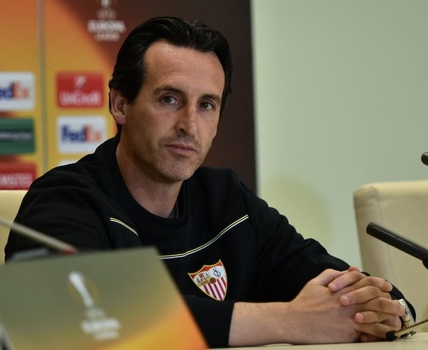 Unai Emery